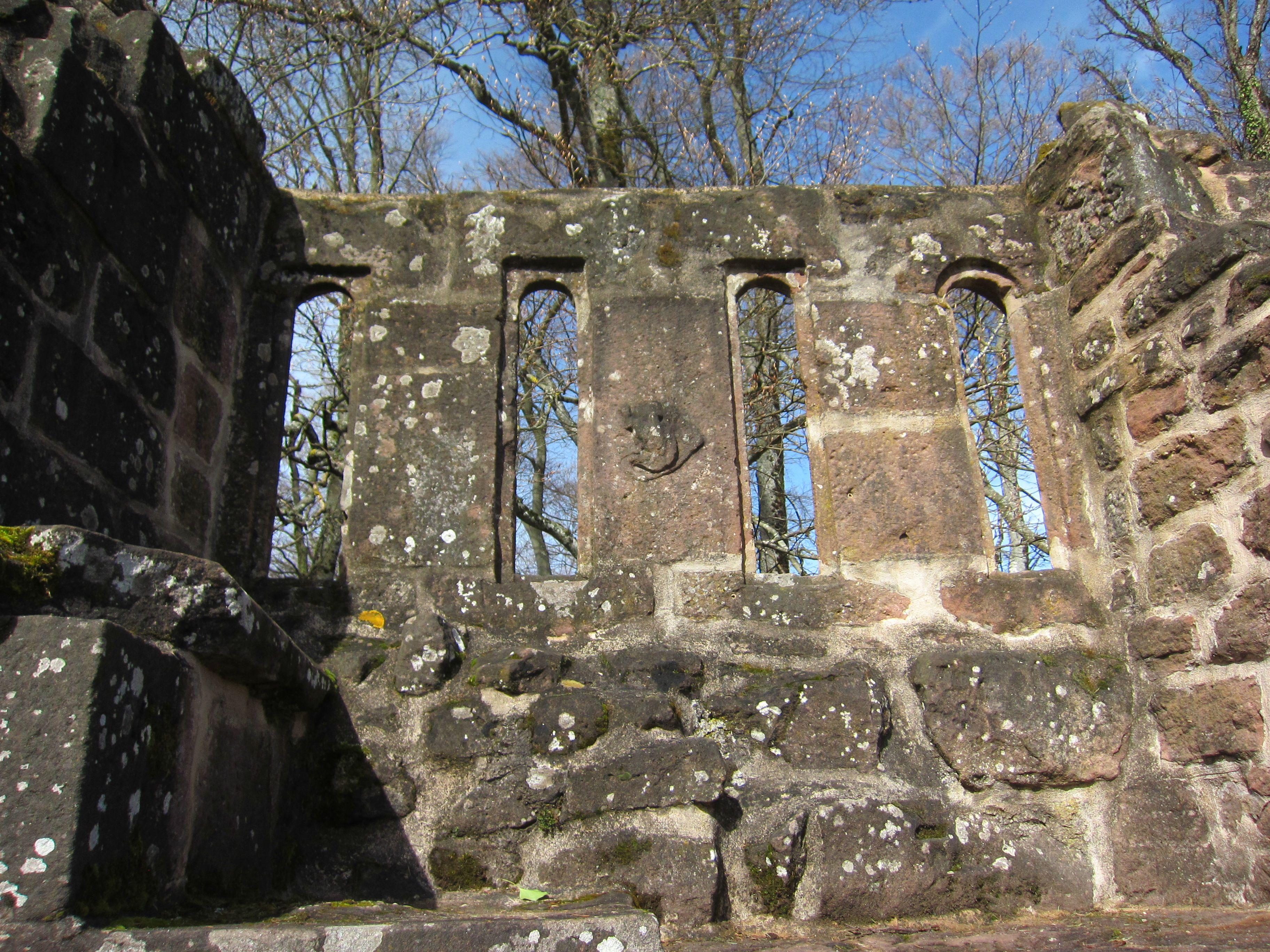 Lützelhardt Castle, window niche in the west of the inner bailey, belonging to the palas (looking westwards)